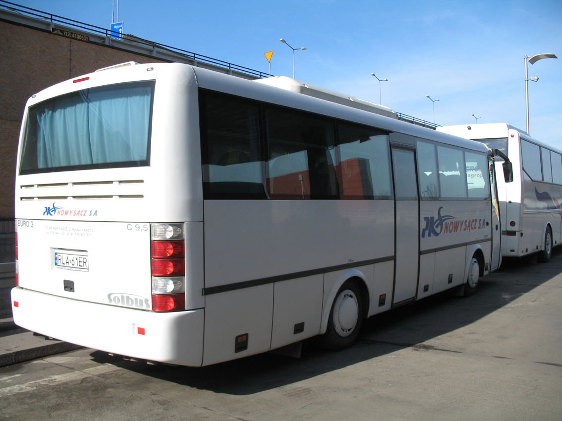 Solbus C 9,5 bus (#N50013) in Kraków, Poland. PKS Nowy Sącz operator.